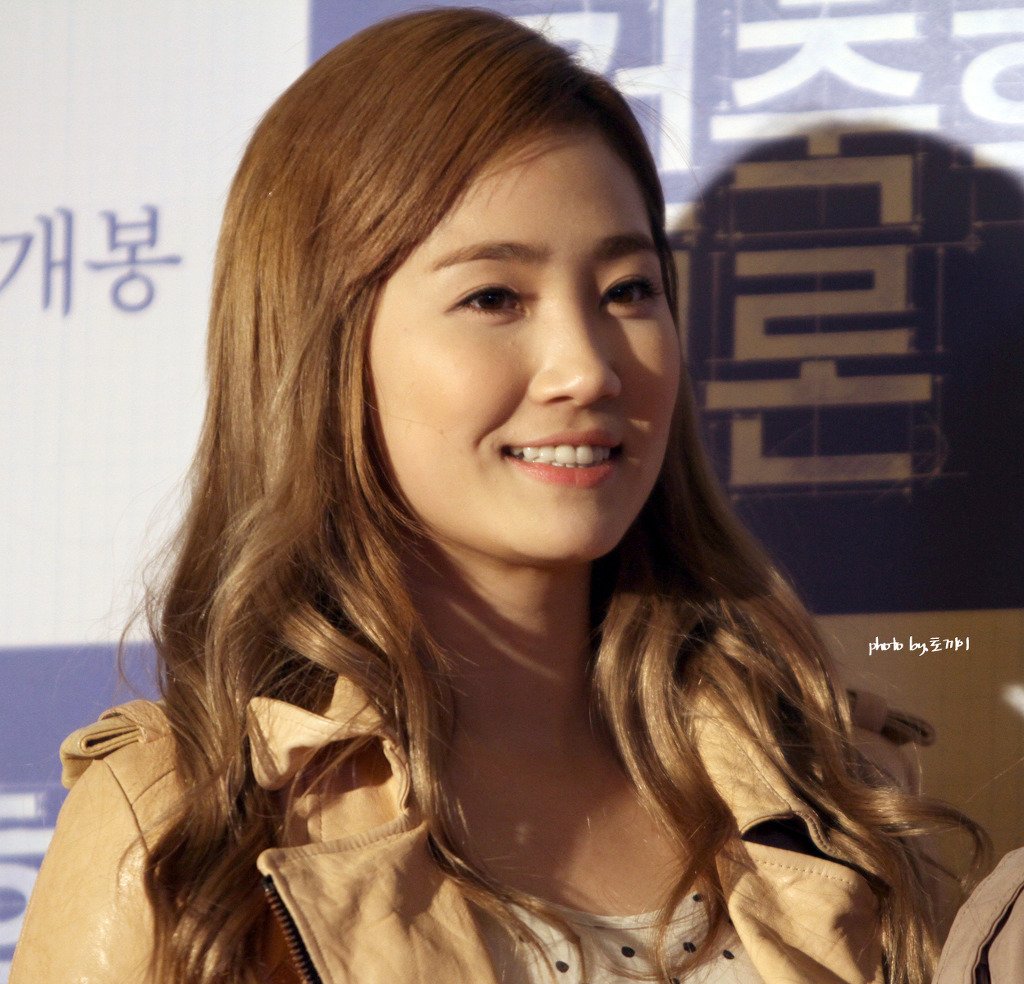 Park Ye-Eun at Architecture 101 VIP preview.